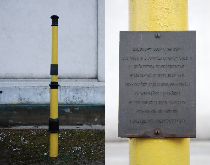 Former border stone between Austria and Russia, placed in Zaklikow after declaration of polish independence in November of 1918.